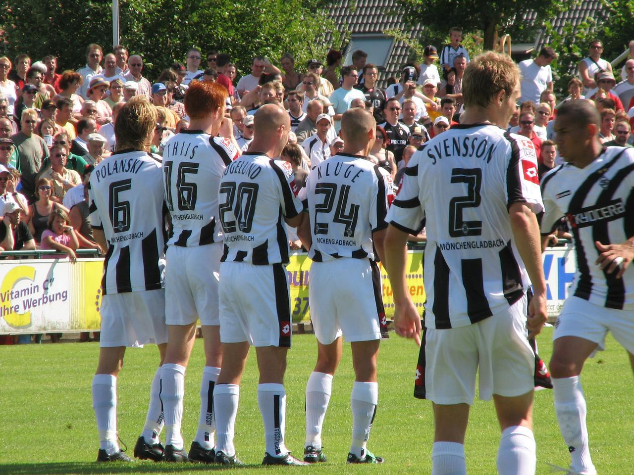 Some players of German soccer team Borussia Mönchengladbach during a friendly match.